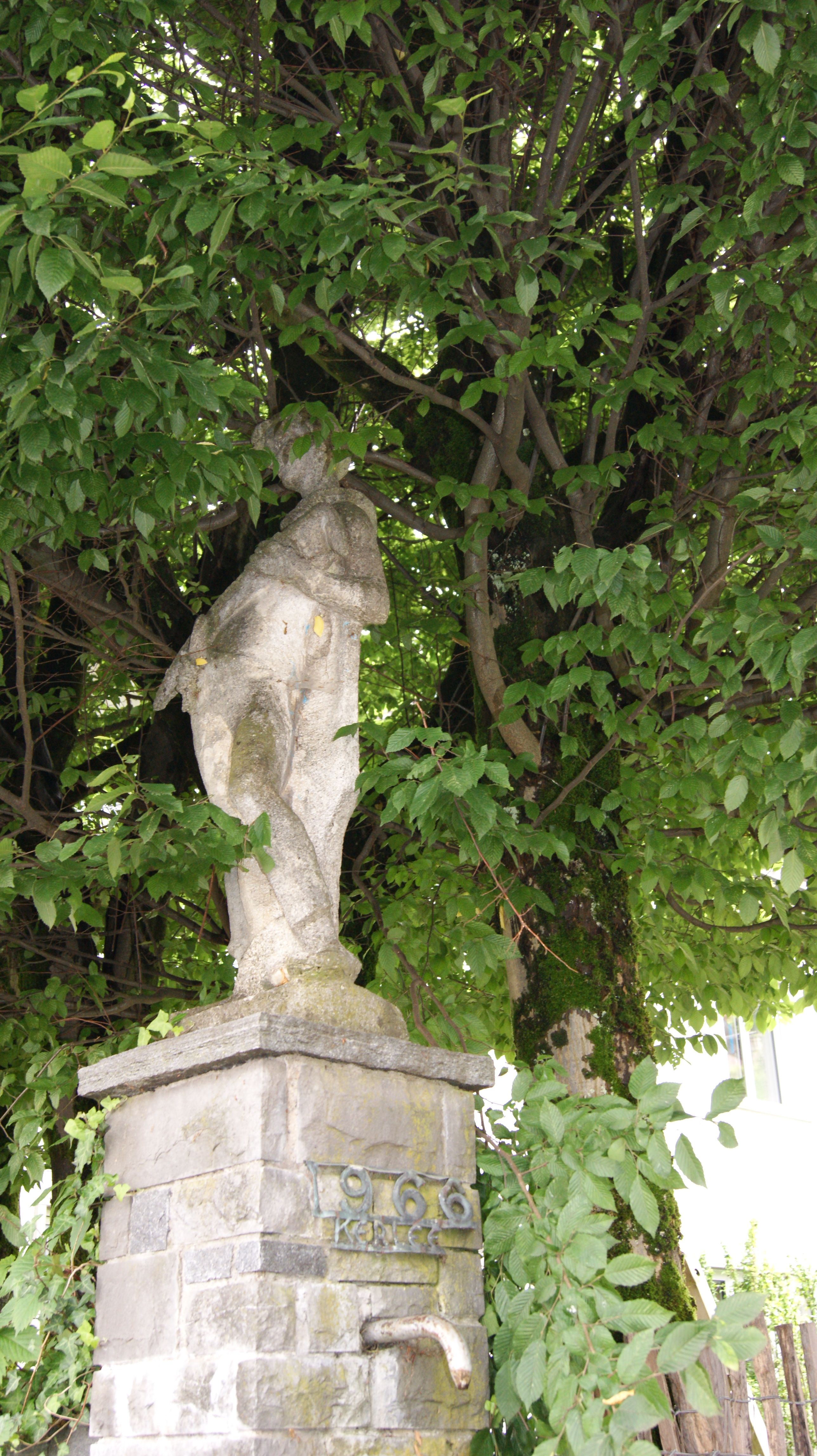 Schwarzach in Vorarlberg, Austria. "Kerle" Fountain, also called "Hansel". In memory of the production of Whetstones in Schwarzach.